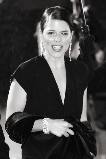 Neve Campbell at the 2006 BAFTAs